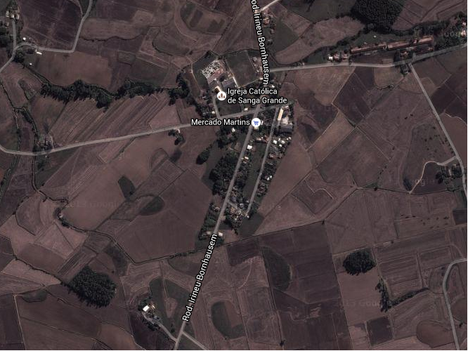 vista de satélite sanga grande